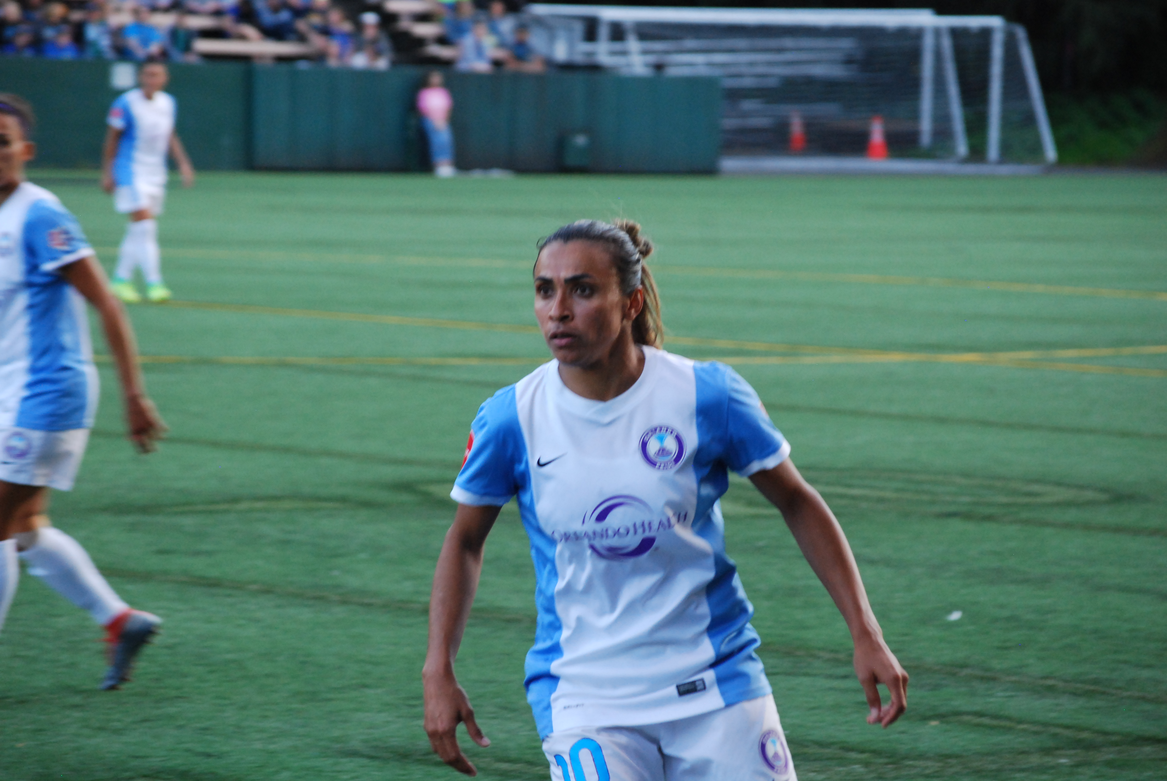 Seattle Reign vs Orlando Pride, May 21, 2017